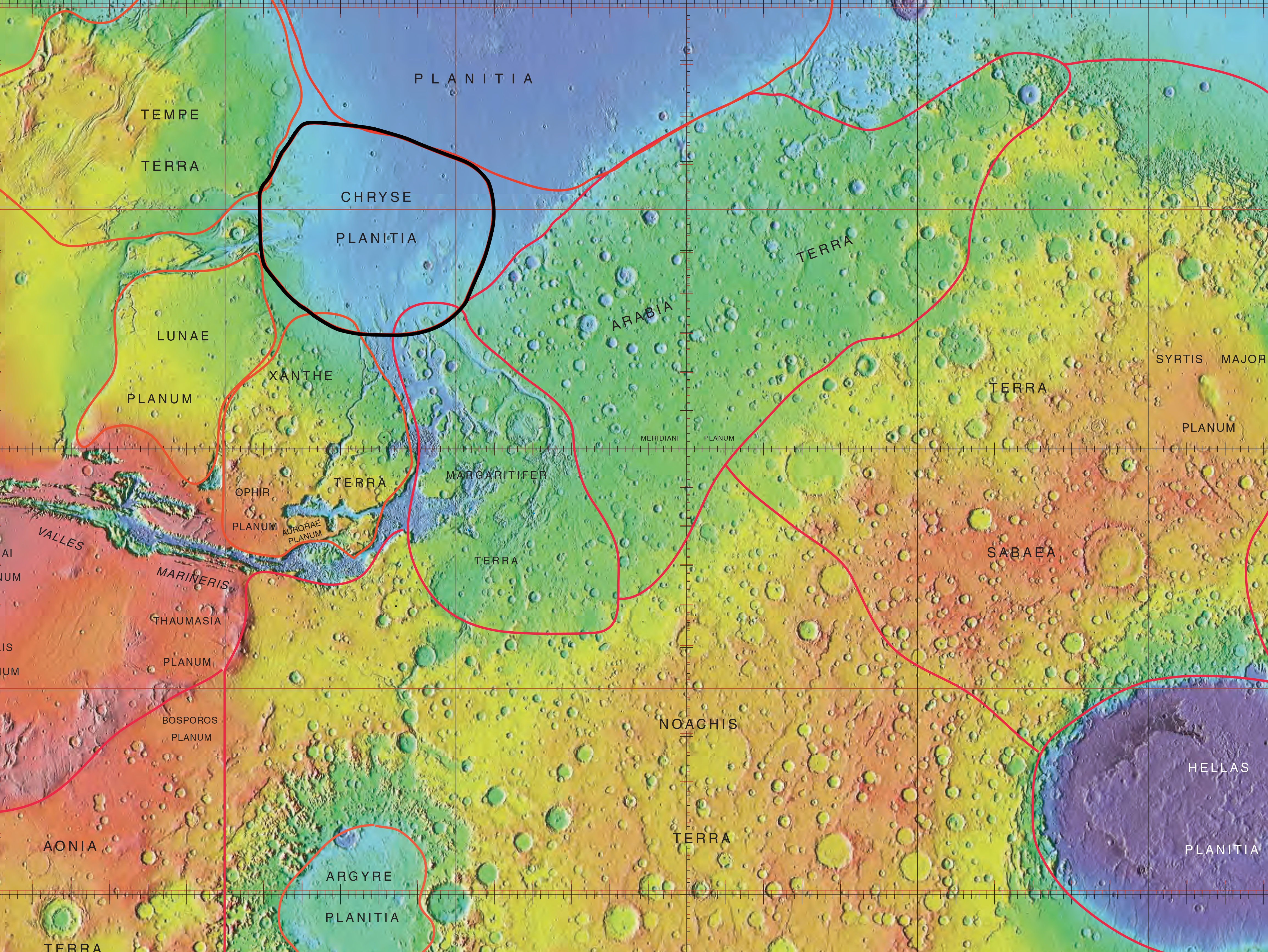 Geographic Map of Mars, Chryse Planitia Outlined